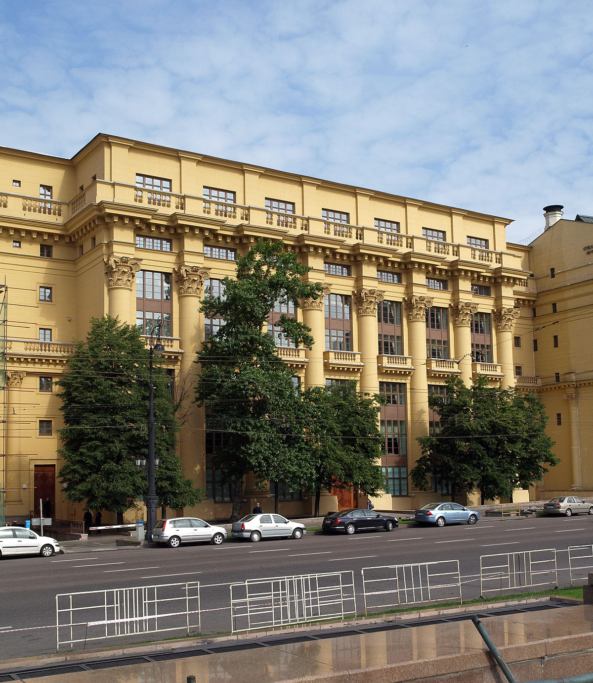 Moscow, 16 Mokhovaya Street, built in 1932-1943 by Ivan Zholtovsky.